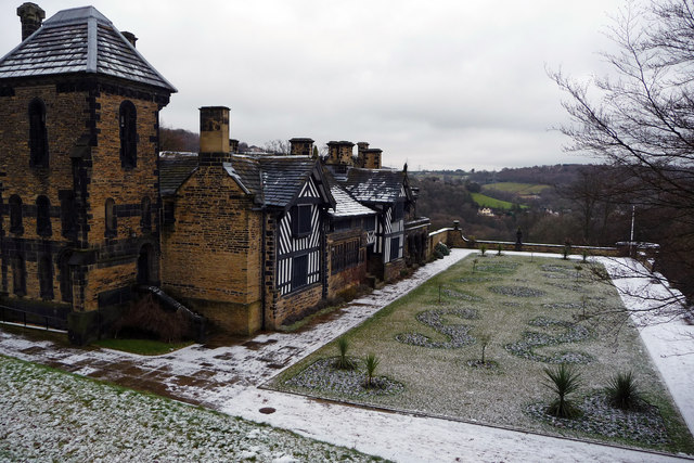 Shibden Hall and the South Terrace The formal terrace garden at Shibden was created in 1836 by John Harper for Anne Lister. The layout of the planting is a recreation of the 'Paisley Shawl Garden designed by Joshua Major for Dr John Lister in 1855.